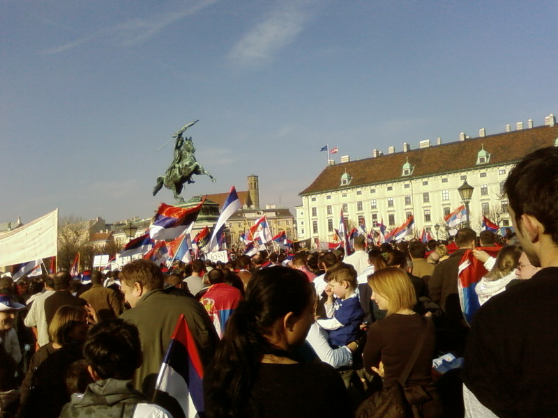 Austria, Vienna, Heldenplatz